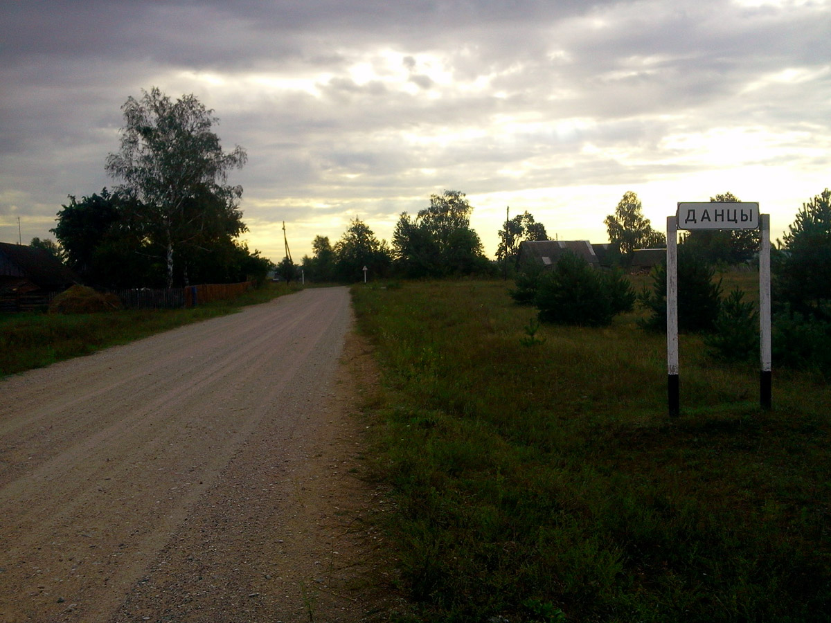 Dontsy village, Masty district, Hrodna province, Belarus